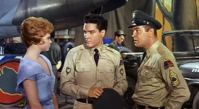 L. to R. : Juliet Prowse, Elvis Presley & Arch Johnson in G.I. Blues - trailer (cropped screenshot)